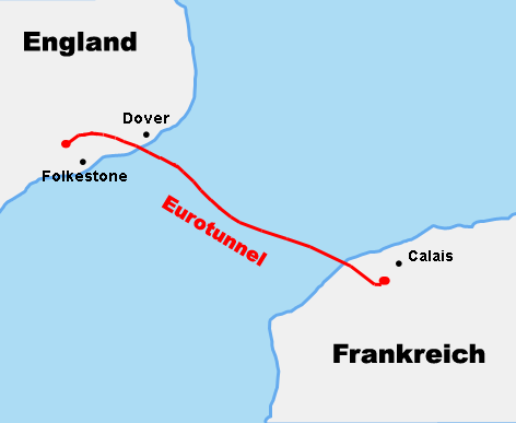 The course of the Channel Tunnel